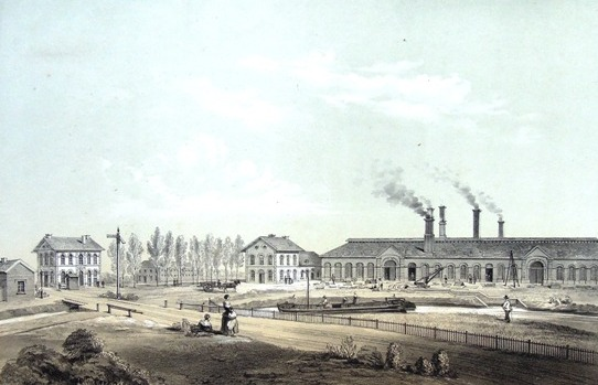 Plate 158 of "Belgique Industrielle" publ. Simonau & Toovey, Bruxelles Image of "La Louvière - Forges, Fonderies & Laminoirs Boucquéau " date c.1850-5